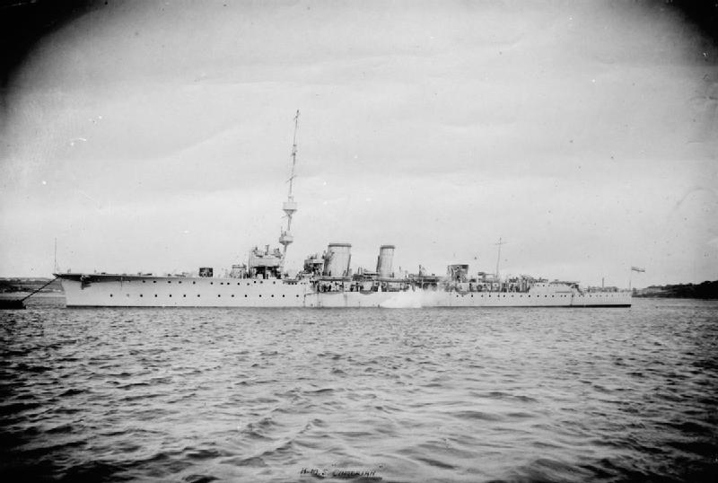 British light cruiser HMS CAMBRIAN.